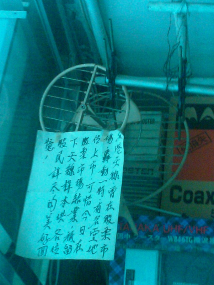 Sample Antenna of the Hong Kong Antenna Company, found in an Antenna Shop in Sham Shui Po